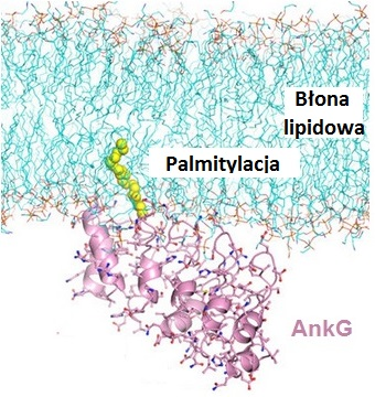 Structural representation of palmitoylation (yellow) which anchors Ankyrin G protein (pink) to the plasma membrane (blue).